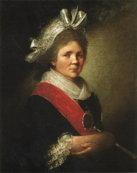 Portrait of the Countess Charlotte Karlovna von Lieven (1743-1828)